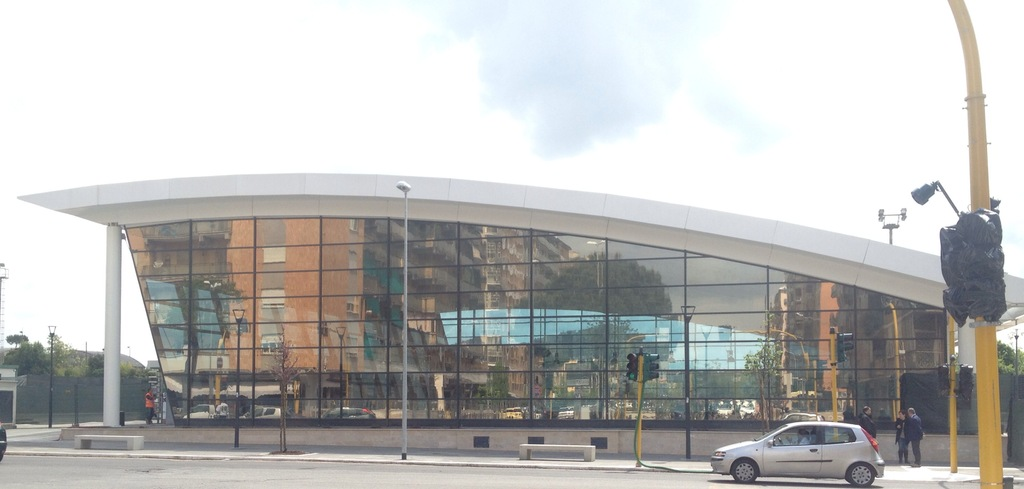 METRO C Teano Edificio